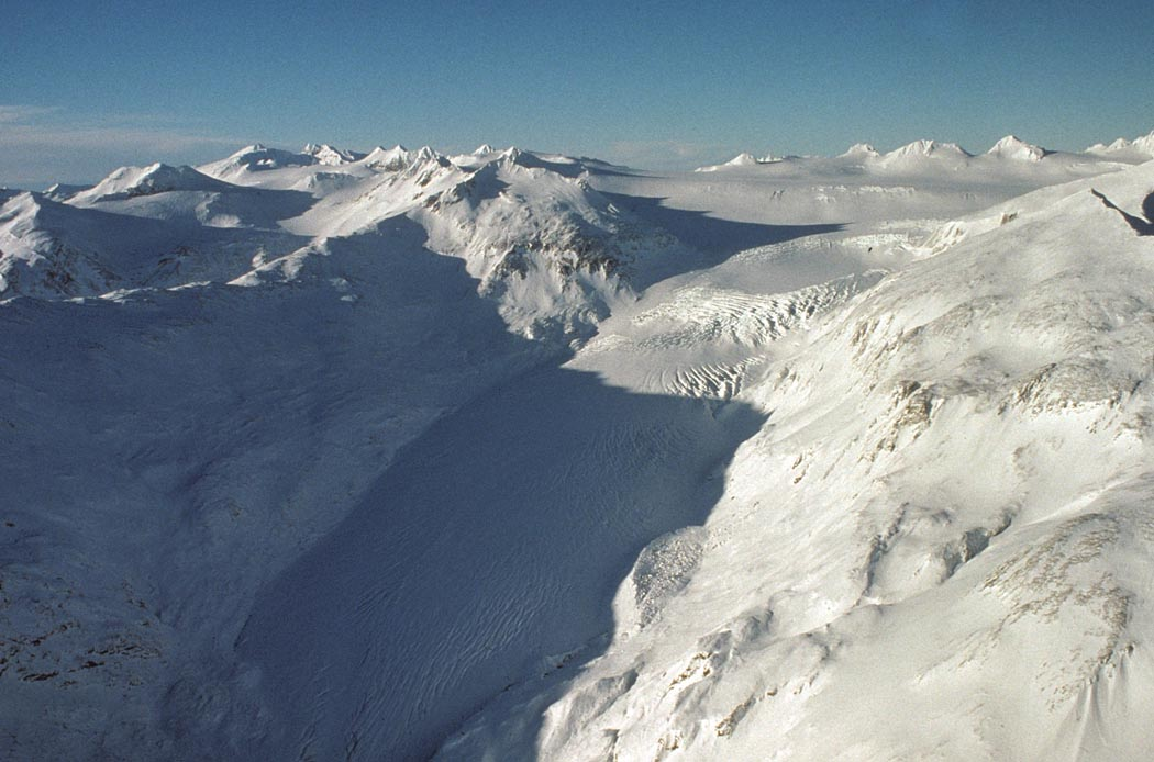 Kialagvik Glacier, Alaska Peninsula National Wildlife Refuge